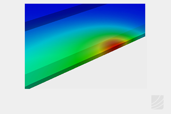 This image shows the transfer of heat in laser welding process. Analysis performed with SimScale.